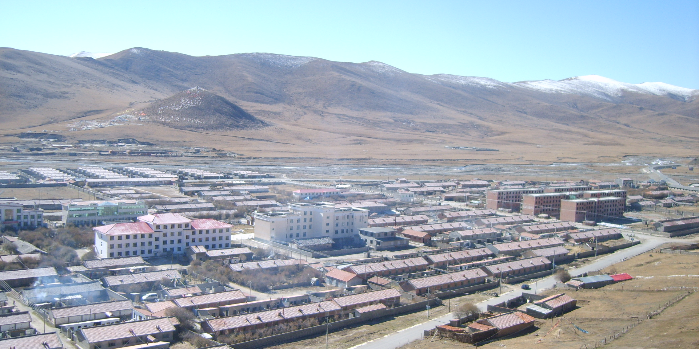 File was overwritten by current version of File:2007年久治县城.JPG.